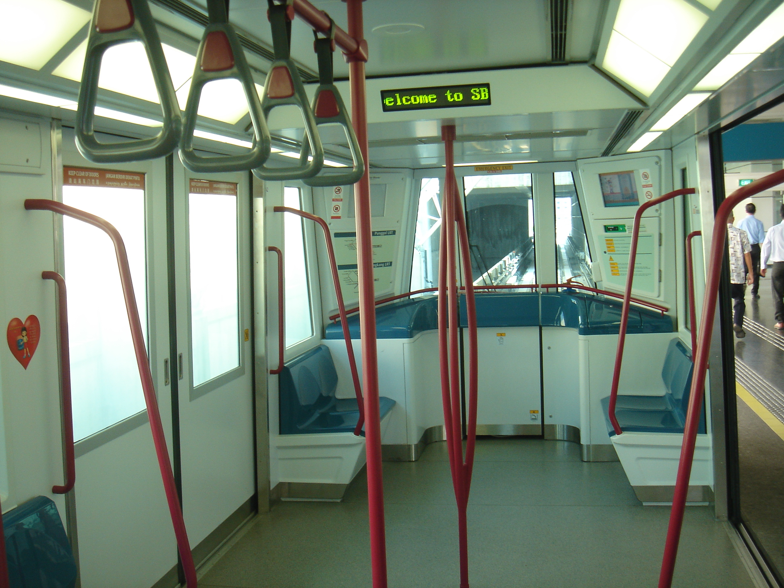 Interior of the Mitsubishi Crystal Mover at a LRT Station, Singapore.